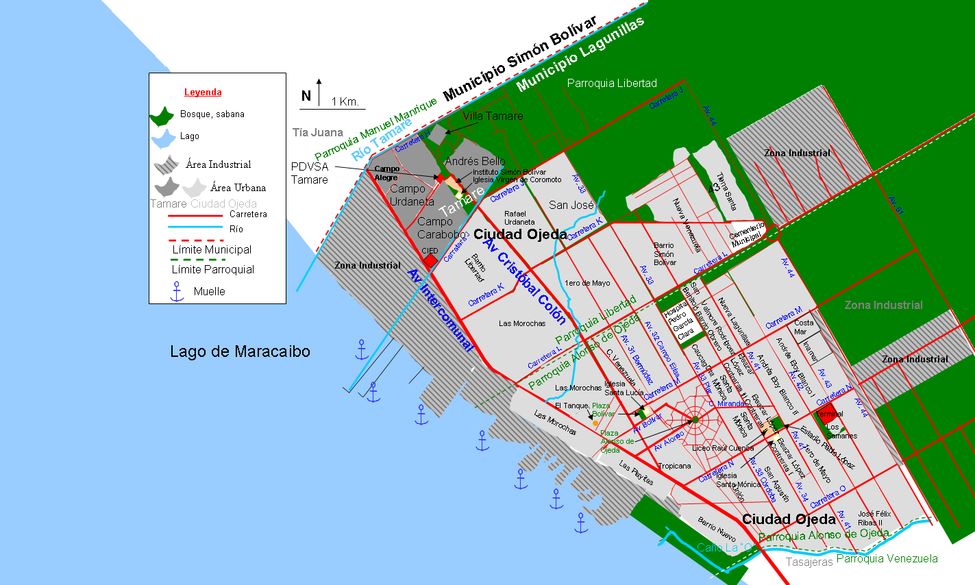 Map of Ciudad Ojeda (Ojeda City). Lagunillas Municipality. Zulia State. Venezuela. Only the main streets and avenues are shown, only some places in the city are named. Ojeda City is shown alonside its suburb Tamare, which is part of its urban area.